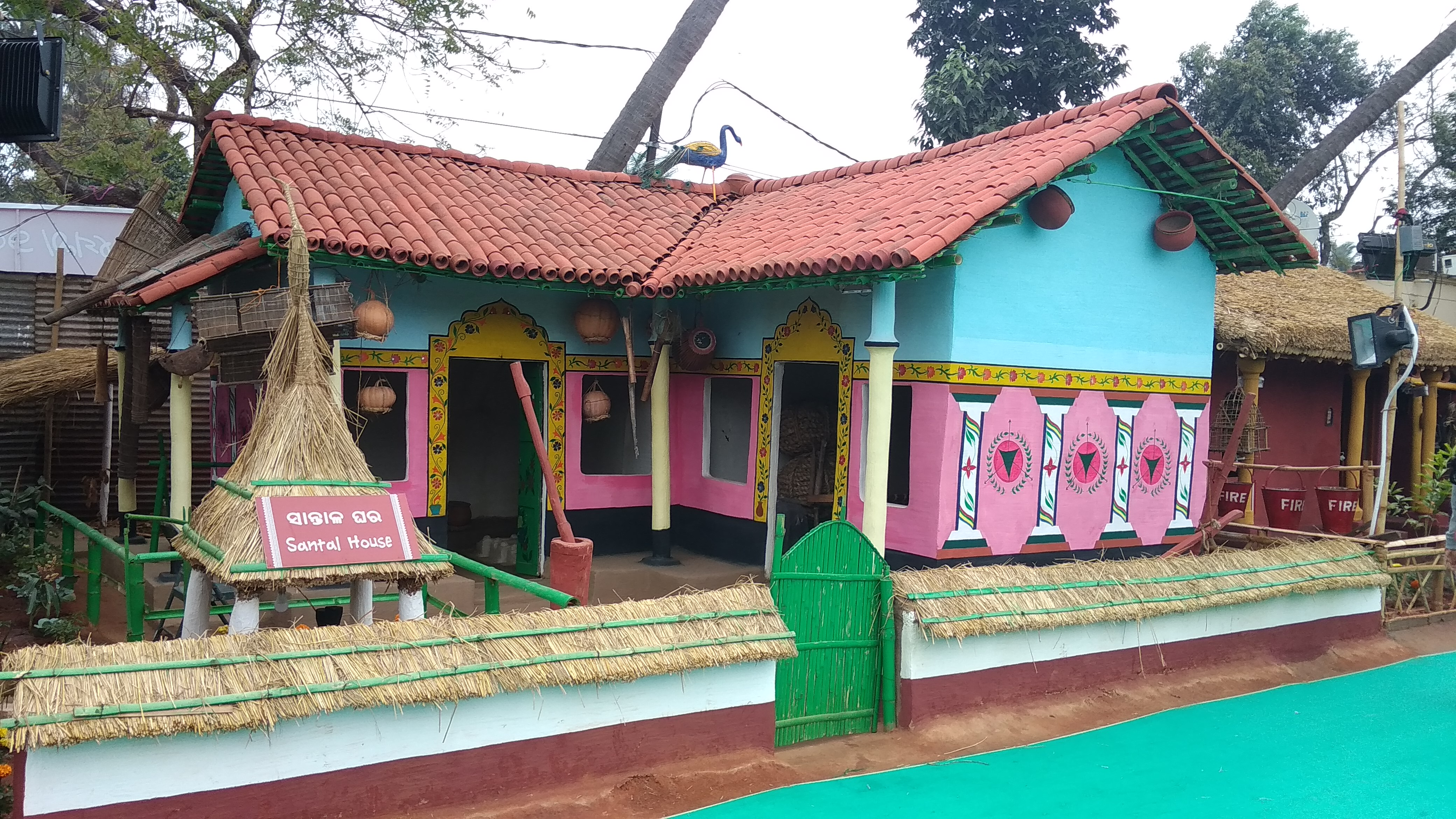 This photo has been taken in the country: India